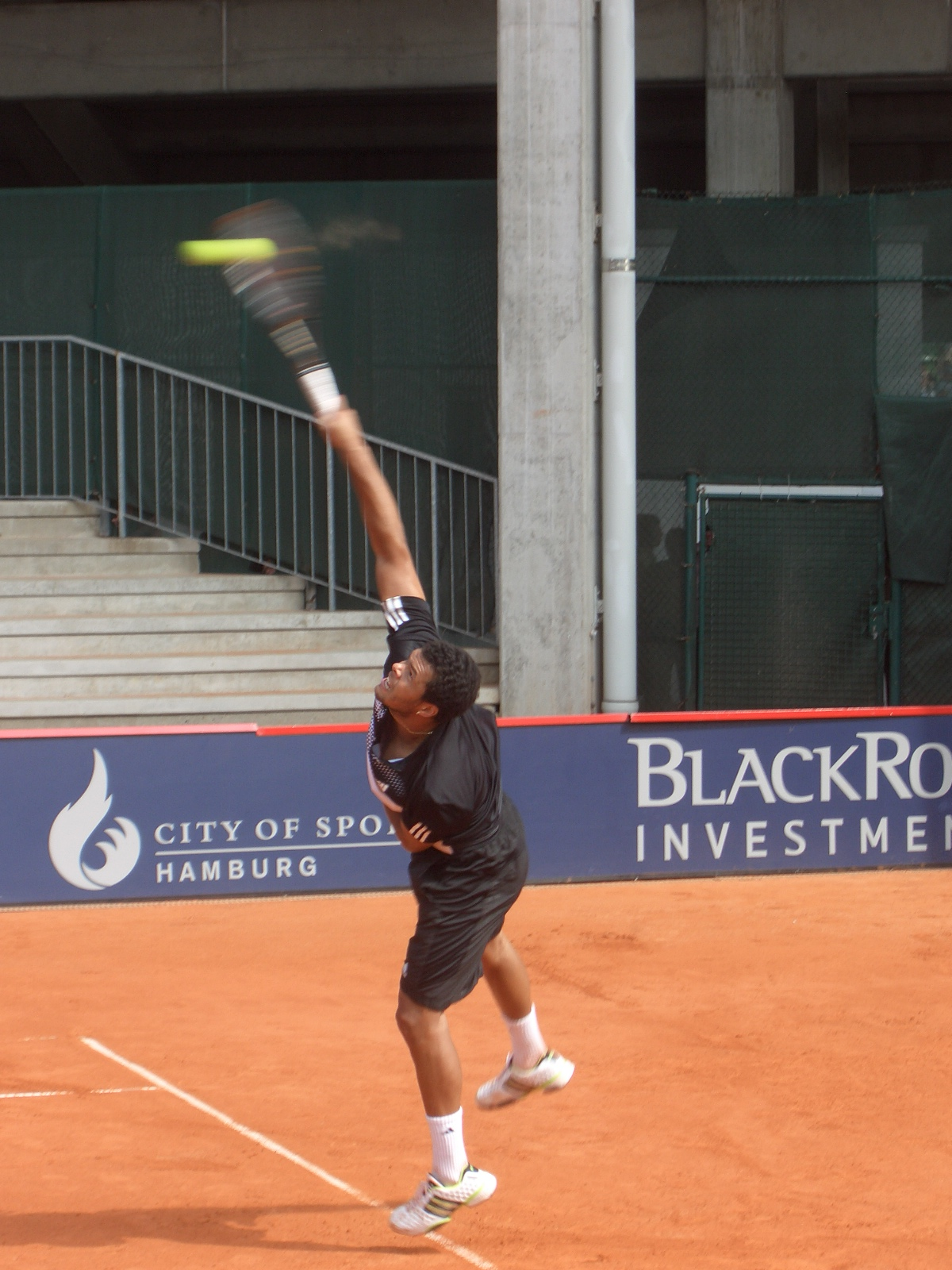 Jo-Wilfried Tsonga at the Hamburg Masters 2008